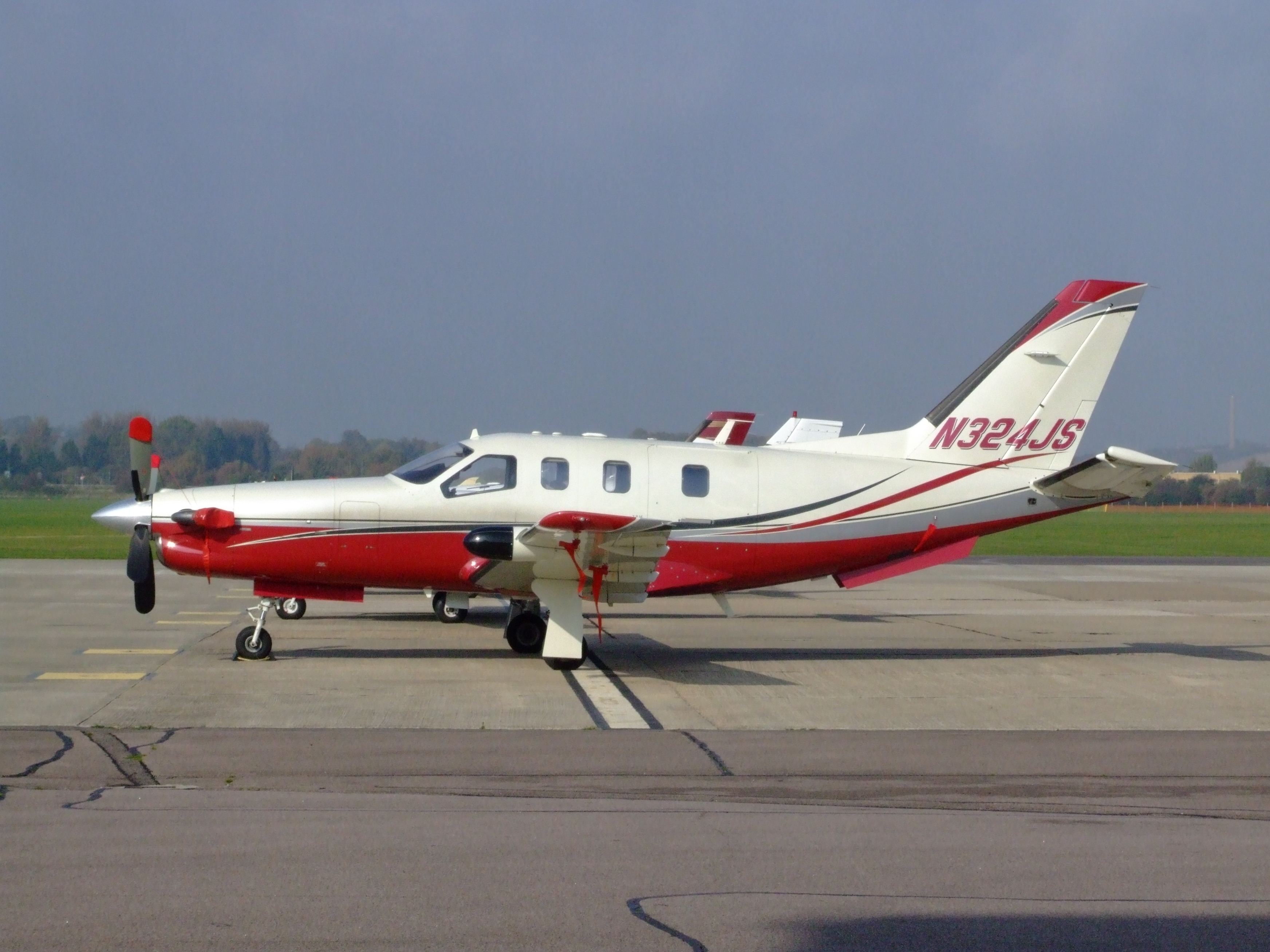 SOCATA TBM700 N324JS